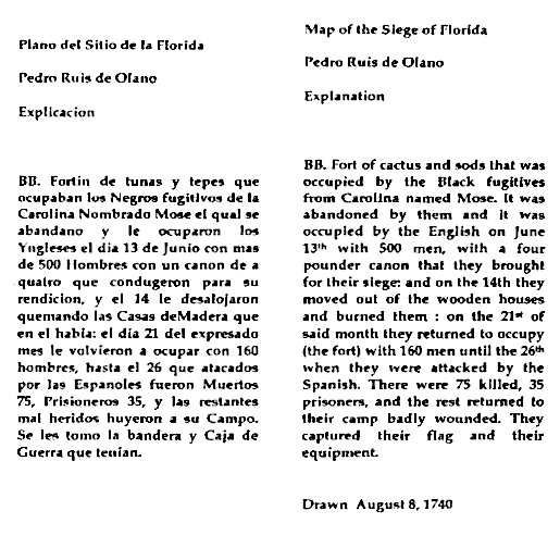 This excerpt is from the legend of the Plano del Sitio de la Florida, a map of St. Augustine, Florida drawn by Spanish royal engineer Pedro Ruiz de Olano in 1740. It shows the location of Fort Mose, part of the town's defensive network. The text was transcribed and translated by Charles A. Tingley of the St. Augustine Historical Society Research Library.